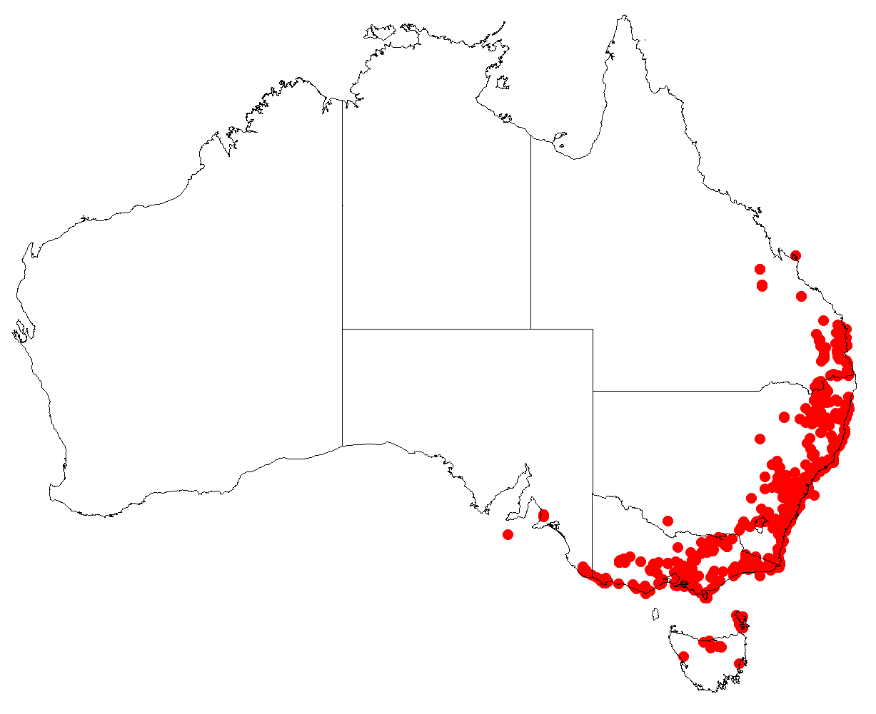 Billardiera scandens occurrence data from Australasian Virtual Herbarium downloaded 5 July 2018